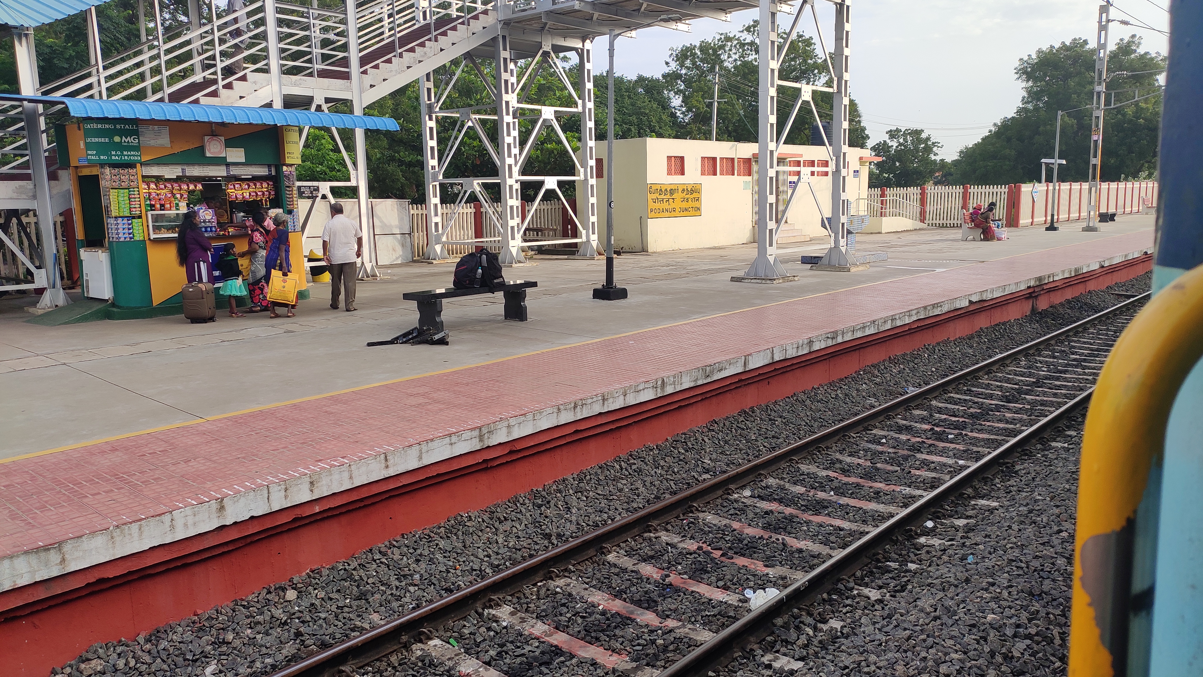 Podanur Junction railway station view from train